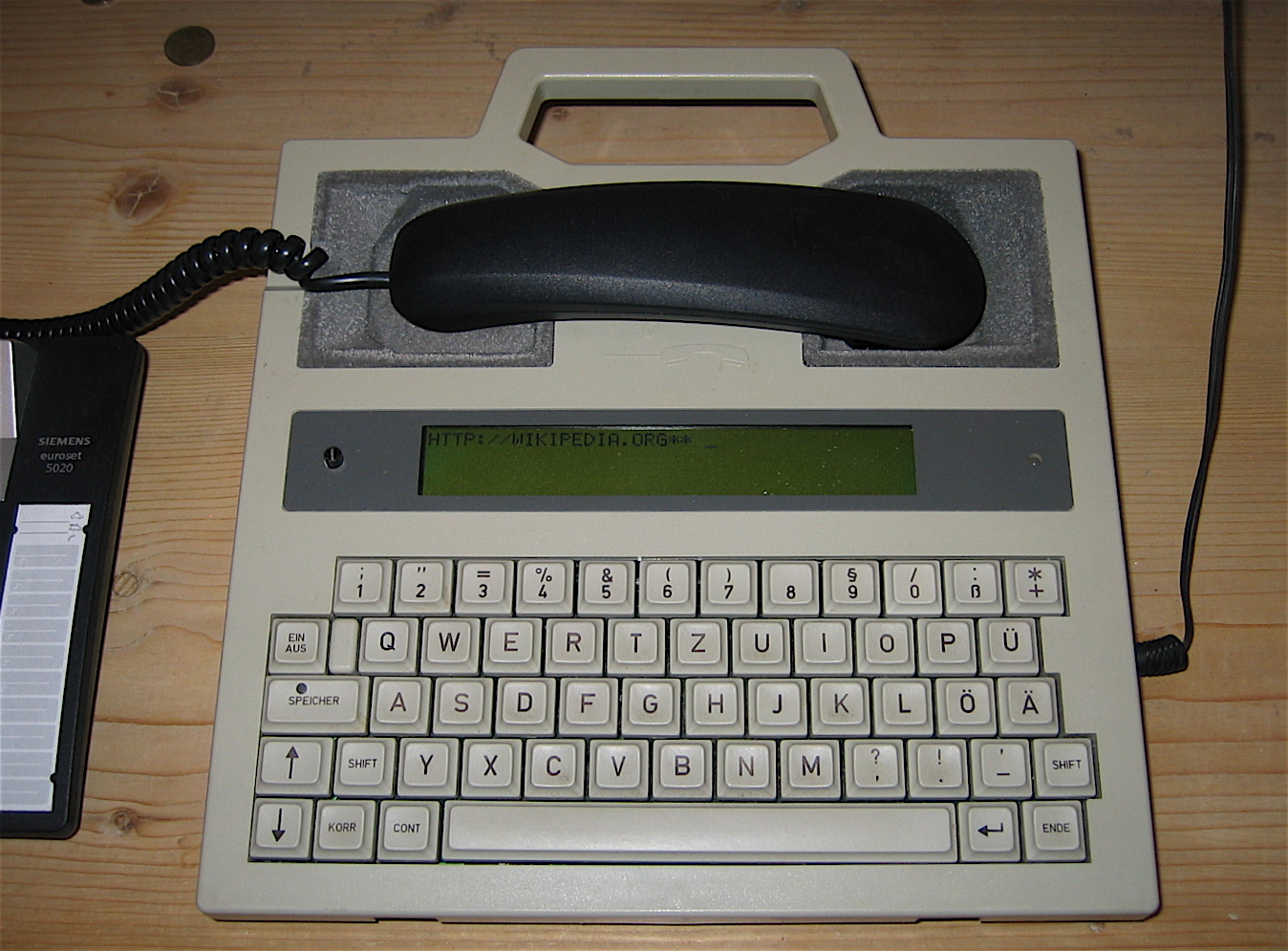 Telecommunications device for the deaf by the German company HGT.